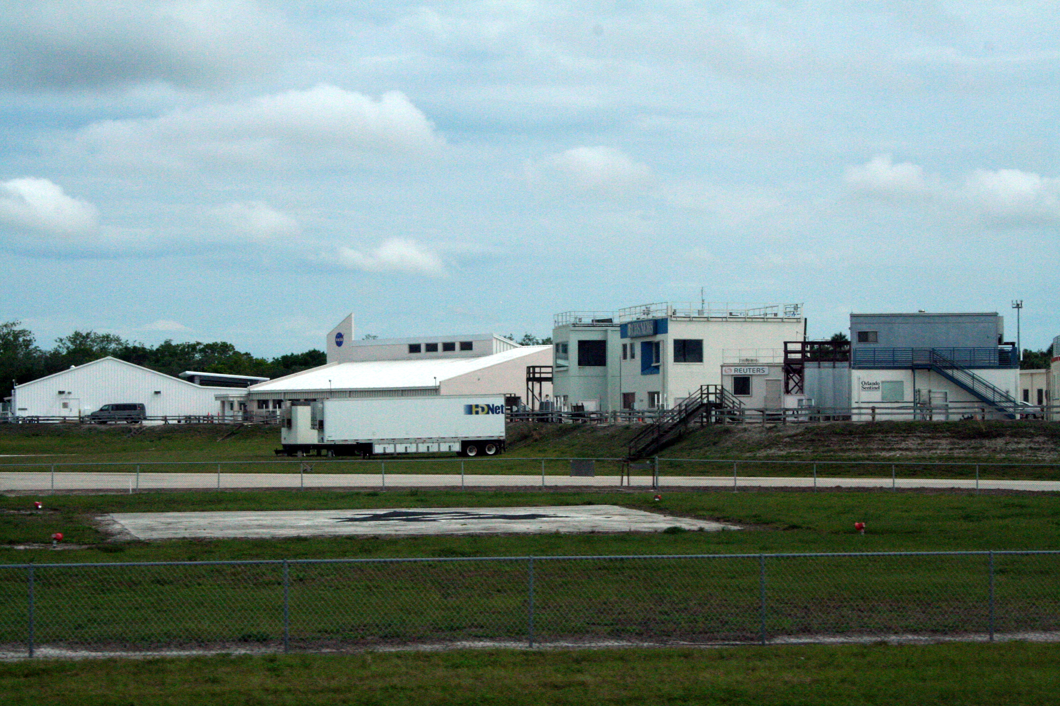 HD Net production trailer stored among press buildings at the Kennedy Space Center press area